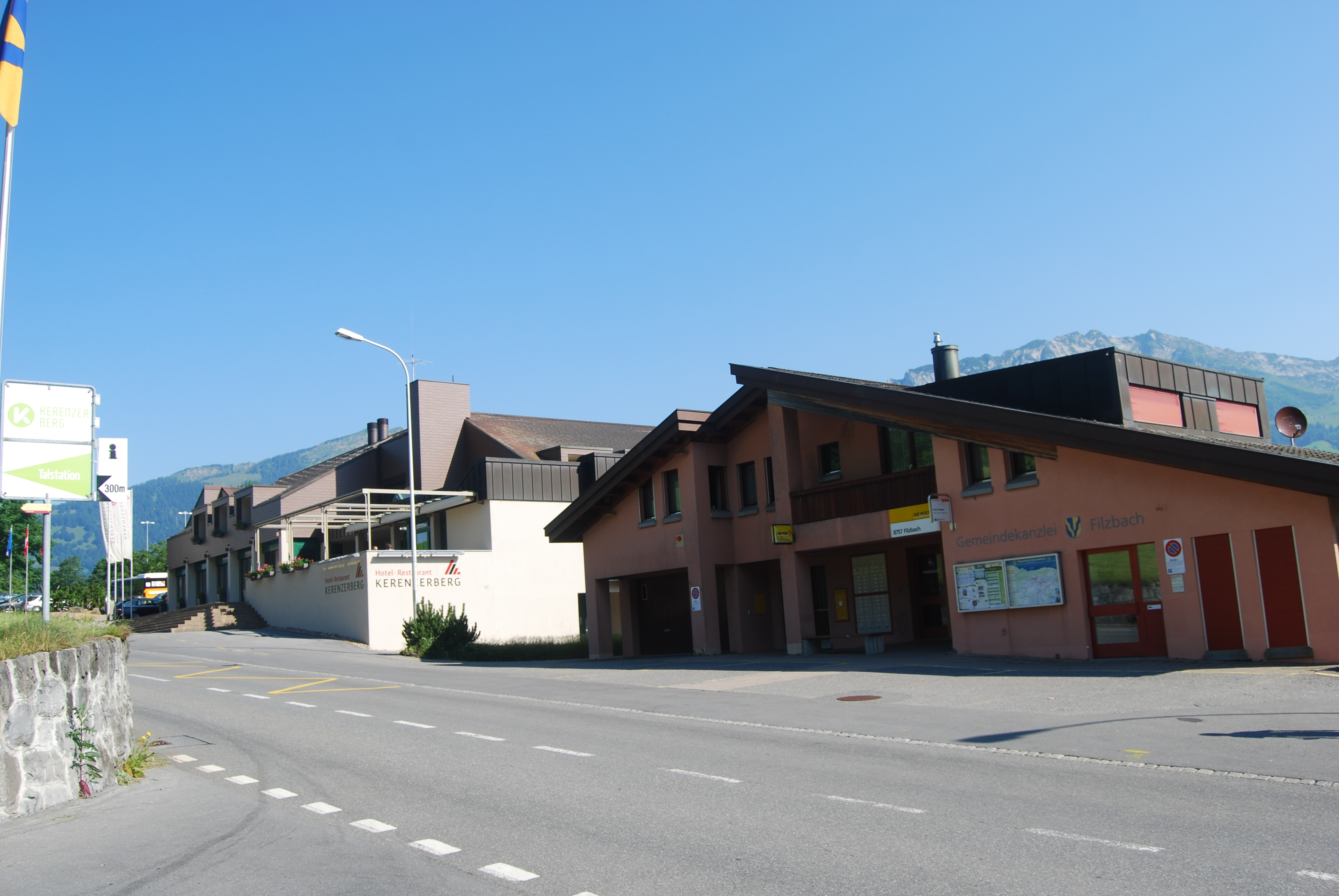 Hotel Kerenzerberg and post office and municipal administration of Filzbach, canton of Glarus, Switzerland